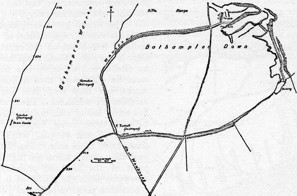 Map of earthworks at Bathampton Down, Somerset, England.